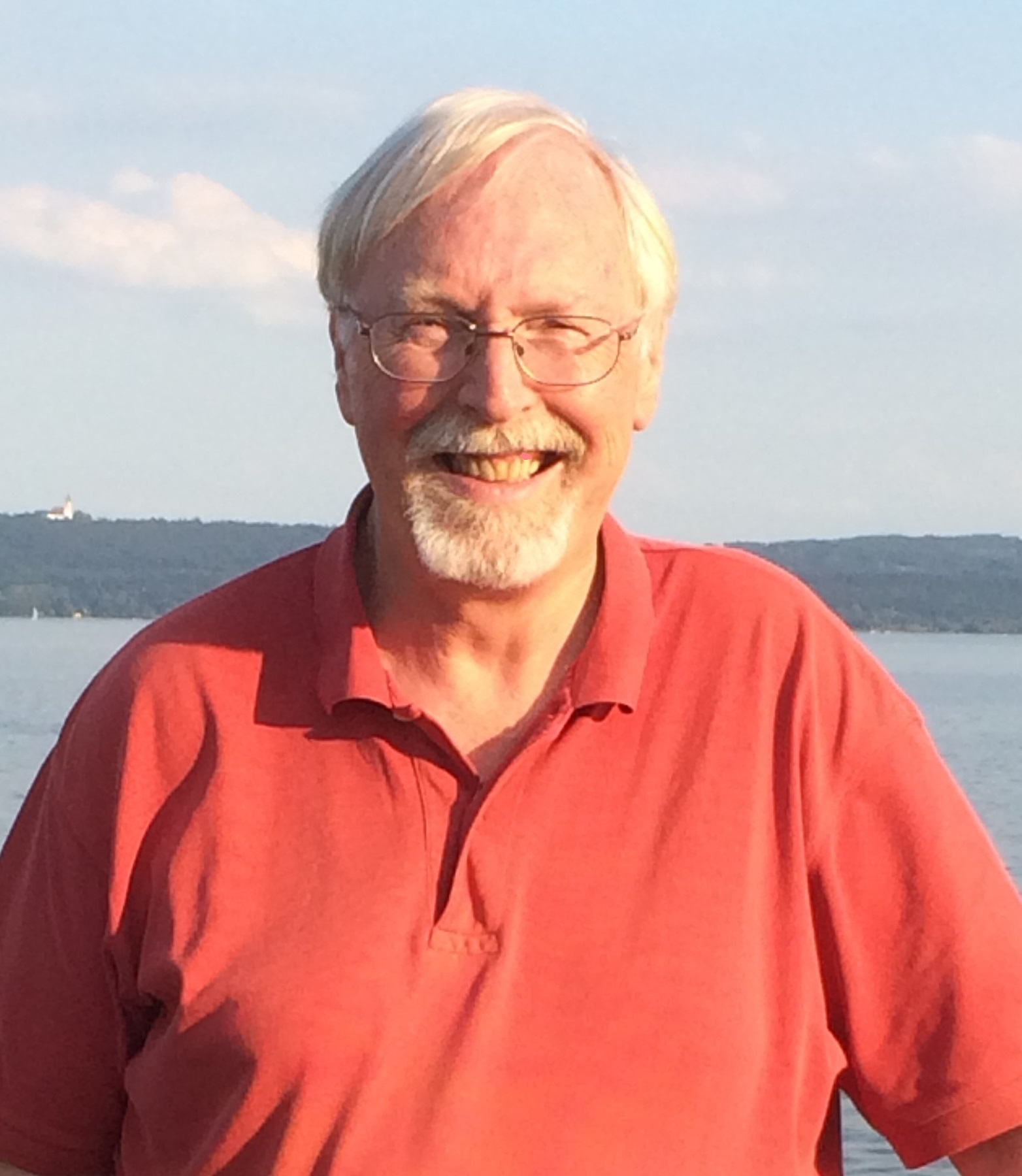 Photo of Professor Hugh D. Loxdale taken on the jetty at Utting, by the Lake of Ammersee, Bavaria, Germany on 9th September, 2016 (his 66th birthday) by his wife Nicola.